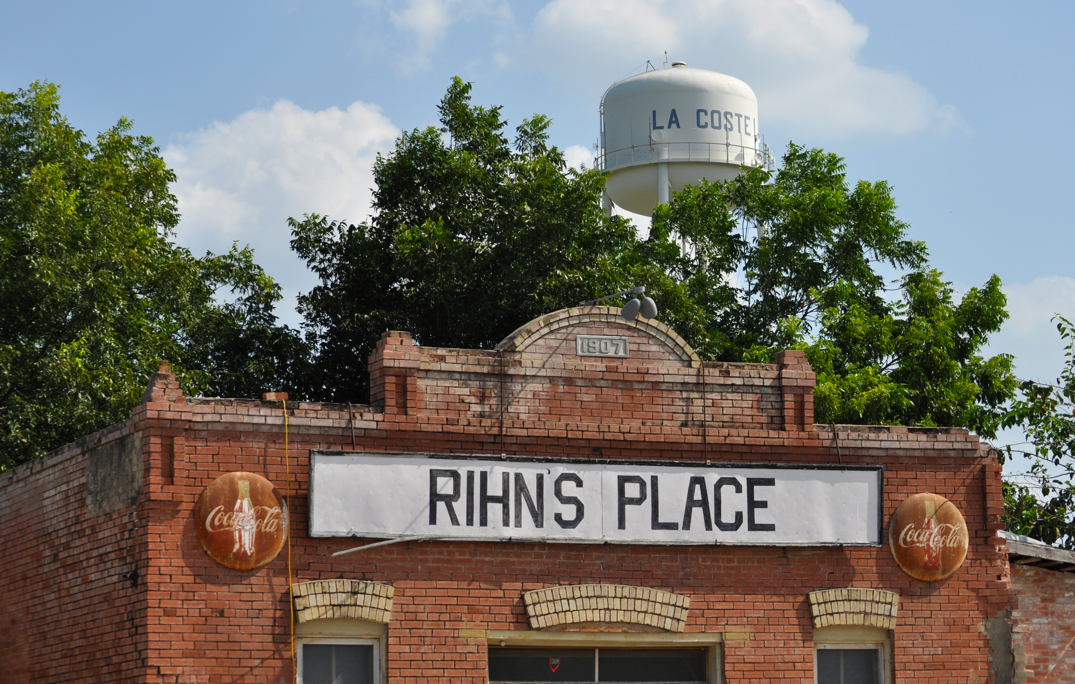 Rihn's Place and Water Tower in LaCoste Texas